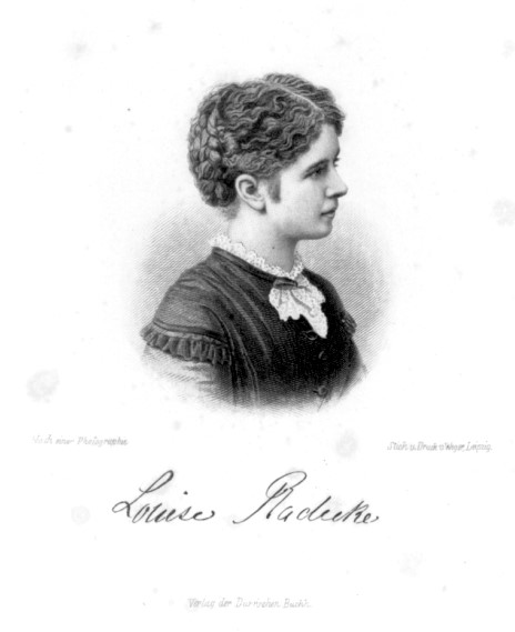 Portrait of the soprano Luise Radecke